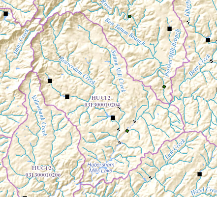 HUC 031300010204 - Beaverdam Creek-Middle Soque River. Beaverdam Creek coming from the northwest, joining the Soque River, which cuts through the sub-watershed from the southeast to the southwest.